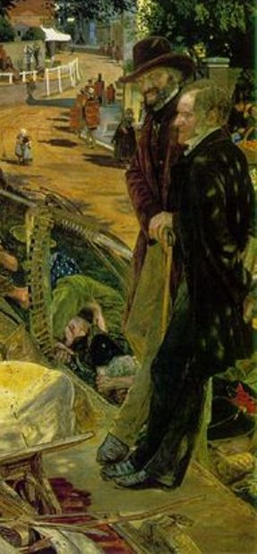 particolare di "Work" (Madox Brown)